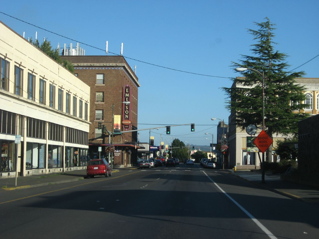 Hoquiam, Washington, USA